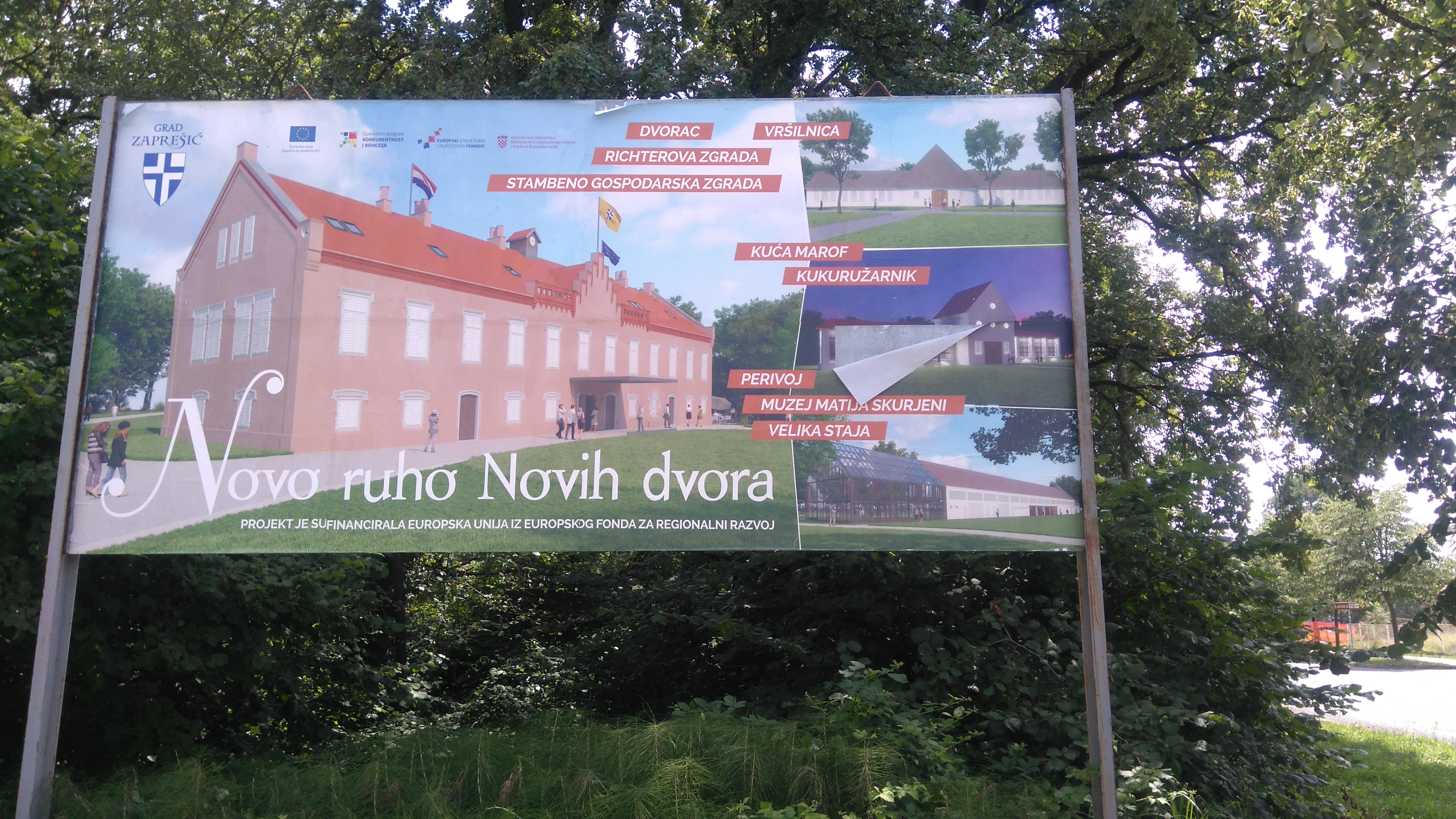 Billboard showing the apperance of Novi dvori estate, after the renovation will be completed.